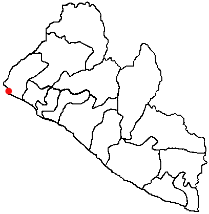 Robertsport, Liberia Location Map; created with the GIMP. Made by User:Acntx.